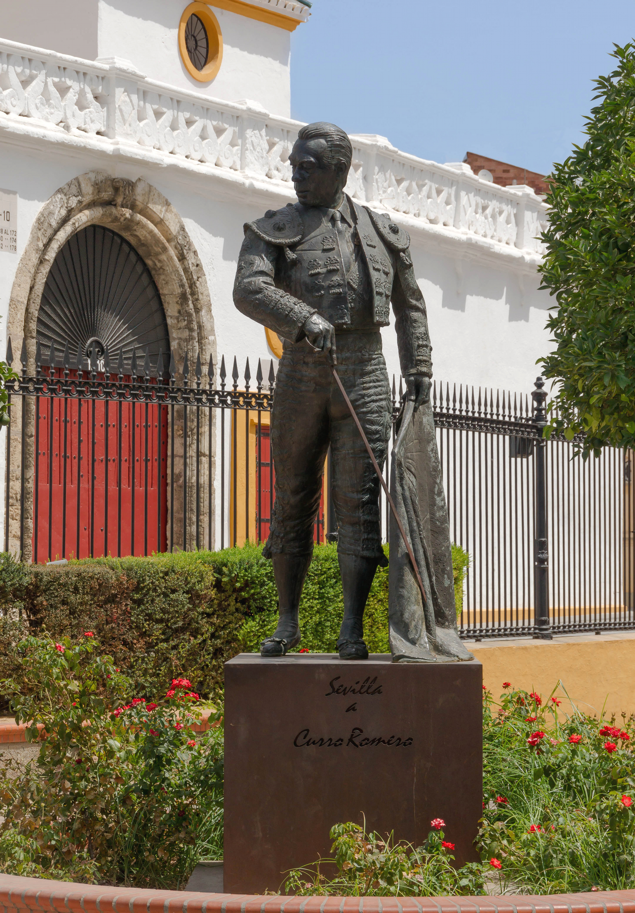 Bronze statue to Curro Romero, by Sebastian Santos Calero, close the bullring of the Real Maestranza de Caballeria of Seville, Spain.